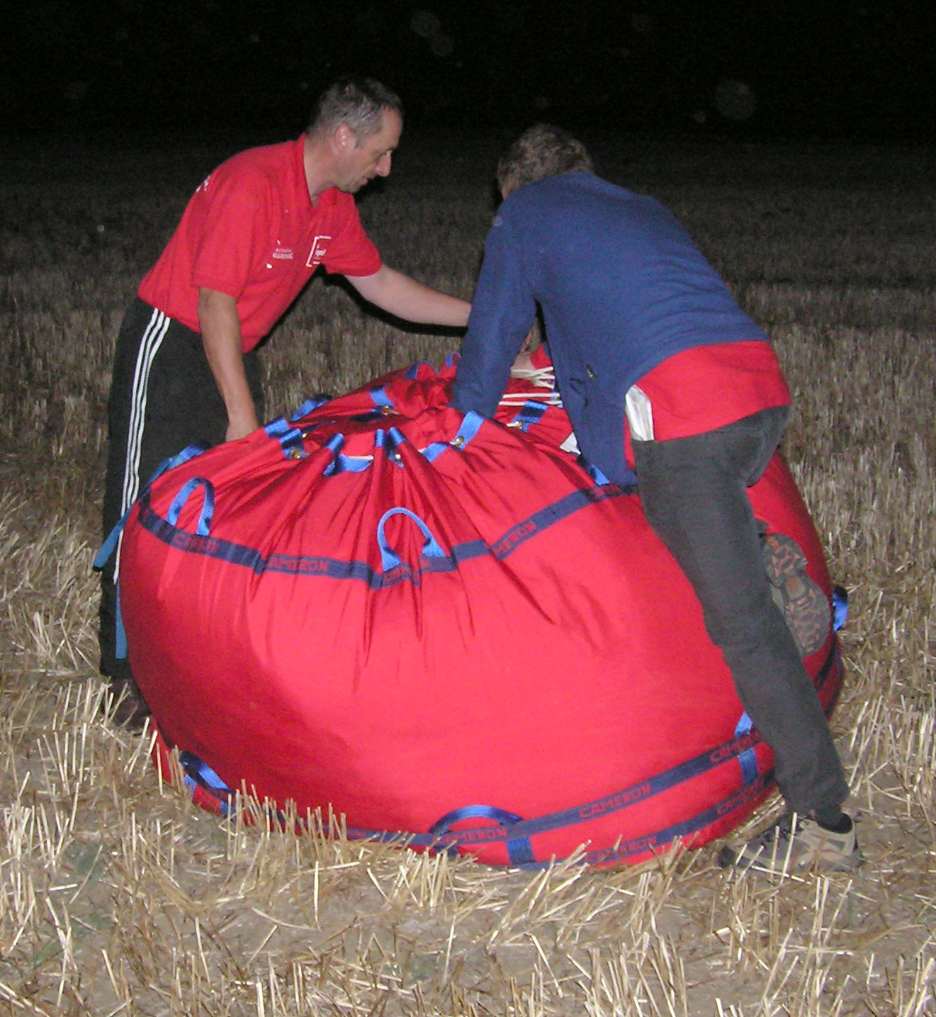 A large hot air balloon in its transport bag, about half an hour after a dusk landing in an English field (Grittleton, Wiltshire). This balloon carried 16 passengers and the pilot. The balloon has landed in a corn stubble field. The envelope has been deflated by pressing on it, then rolled up and squashed hard into the bag for storage (ready for the next flight). It will shortly be dragged on to the nearby retrieval vehicle. Photographed by Adrian Pingstone on 21st September 2005 and placed in the public domain.